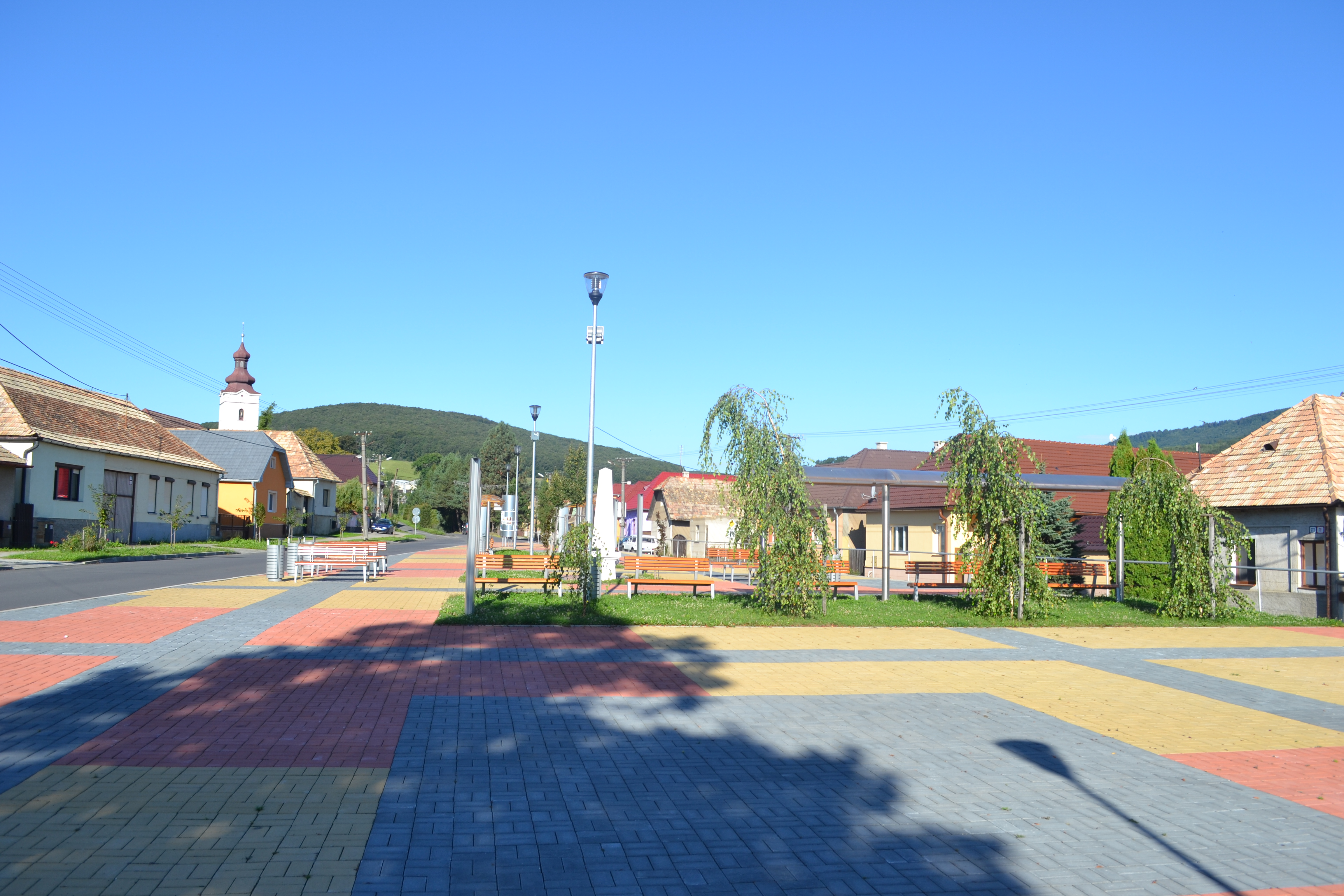 Square in the village CinobaňaSlovenčina: Námestie v obci Cinobaňa